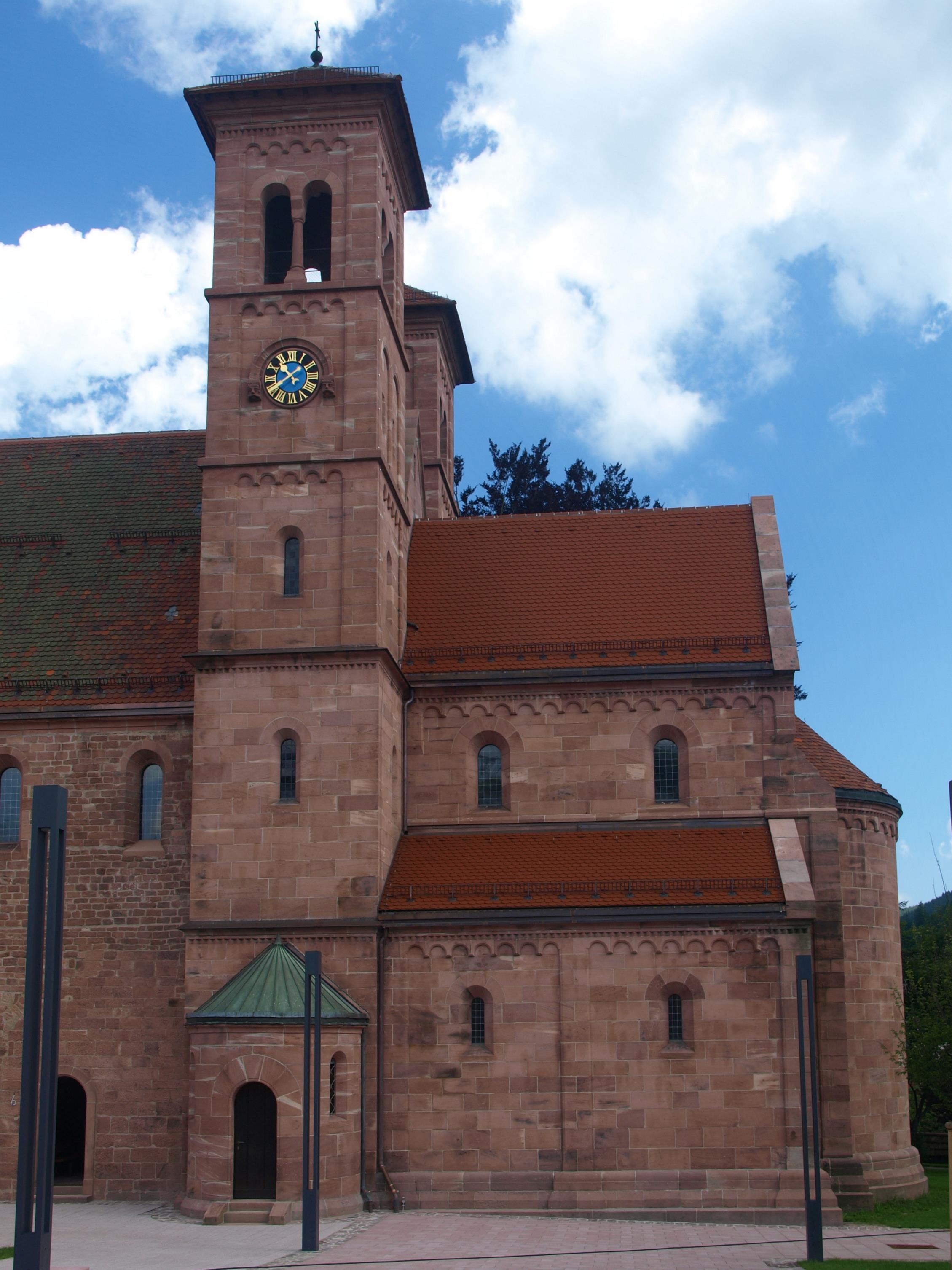 Eastern part from minster in Klosterreichenbach